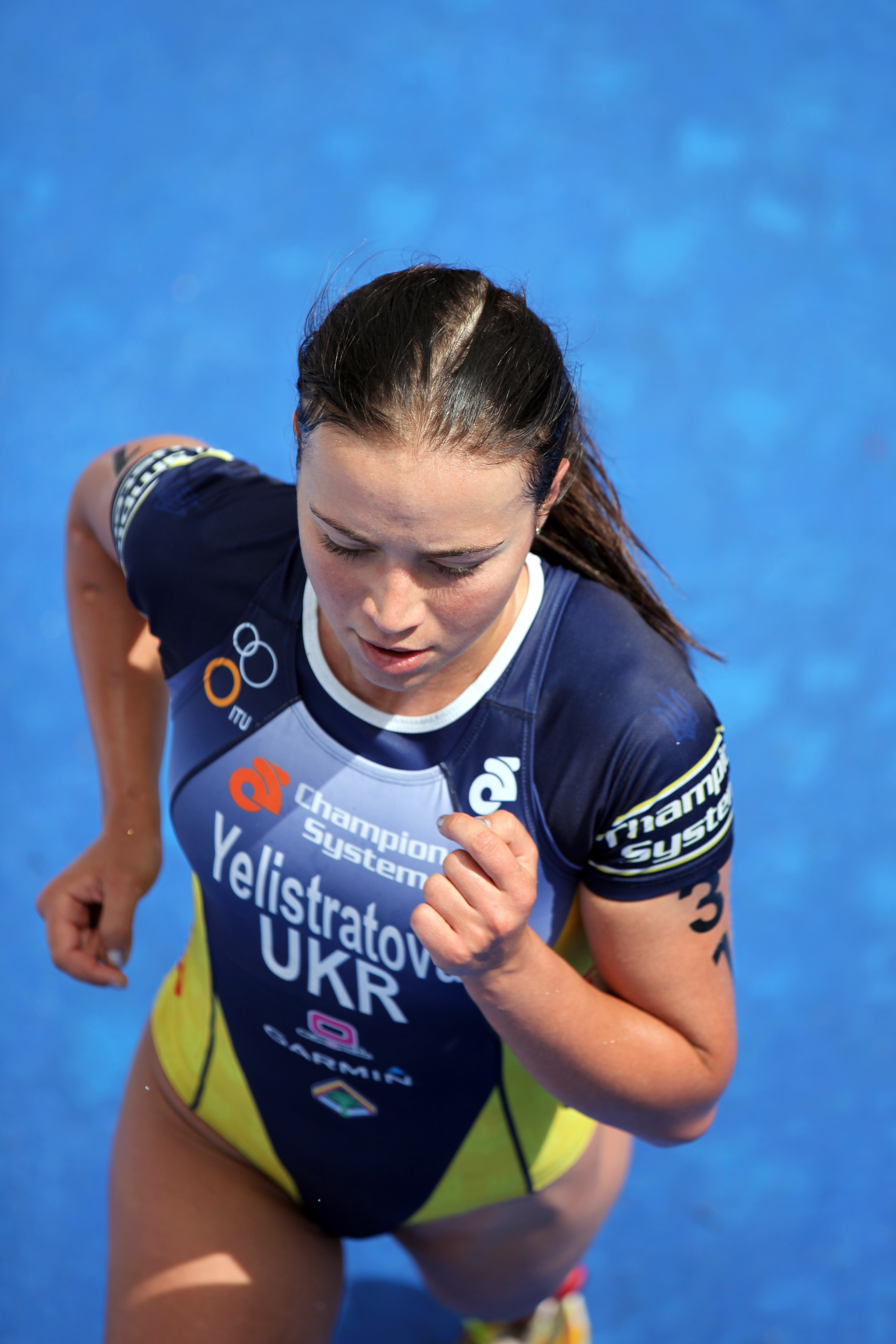 Yuliya Yelistratova (Sapunova), Ukrainian Юлія Єлістратова, Russian Юлия Елистратова, at the World Championship Series triathlon in Kitzbühel, 2011.